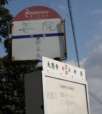 Zen-in Bus Stop on the Nishitetsu Bus Kurume route #25